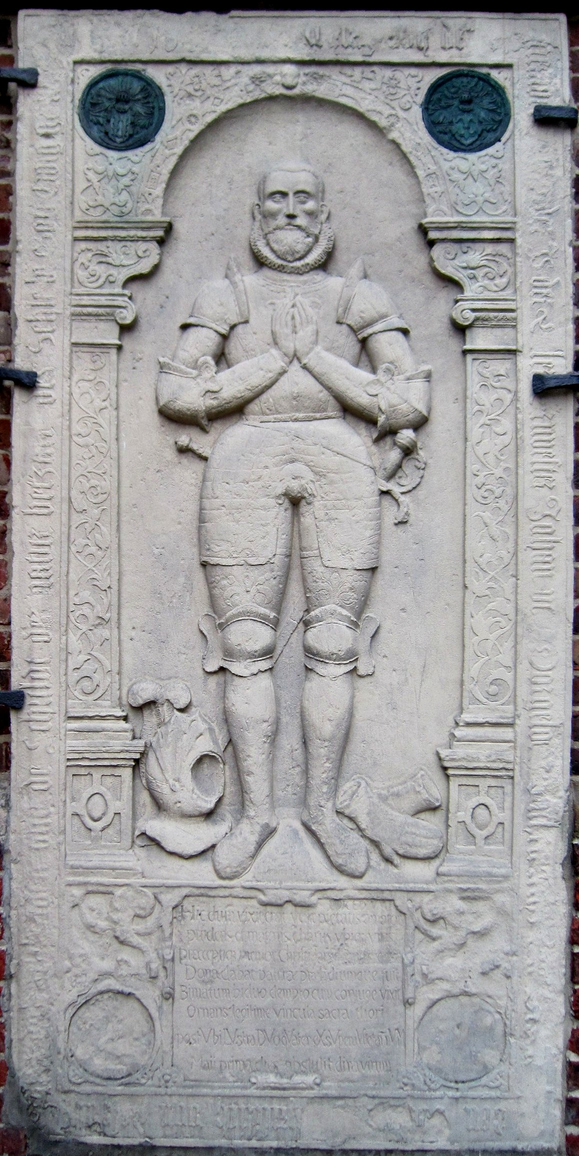 Epitaph of Johann von Dorgelo at Propsteikirche in Vechta